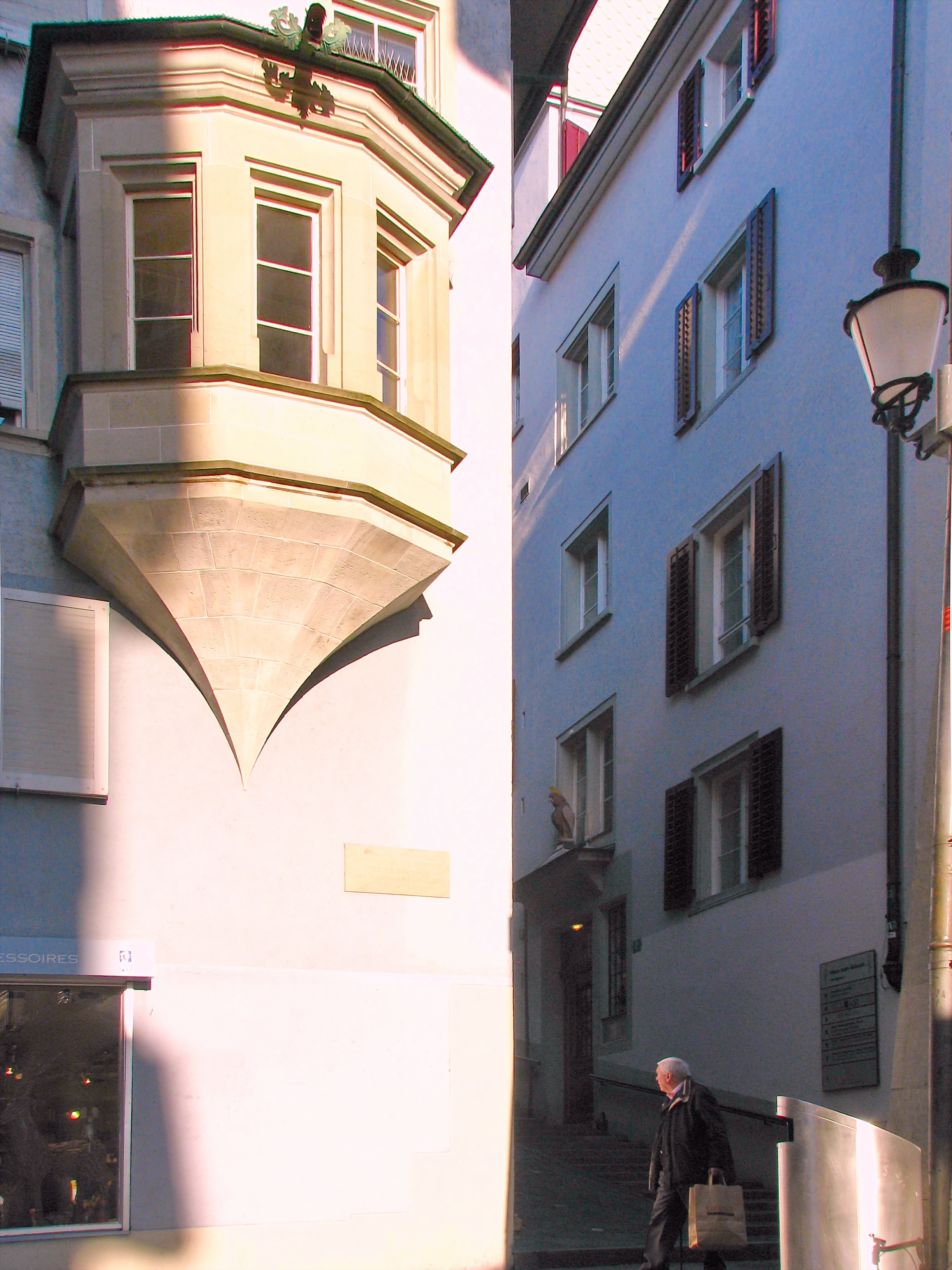 Zürich, Oberdorfstrasse: «Haus zum Steinernen Erggel», former home of Gerold Edlibach (* 1454; † 1530) at the left side, «Haus zum Sitkust», former home of Hans Waldmann (* 1435; † 1489) at the right side (Trittligasse)